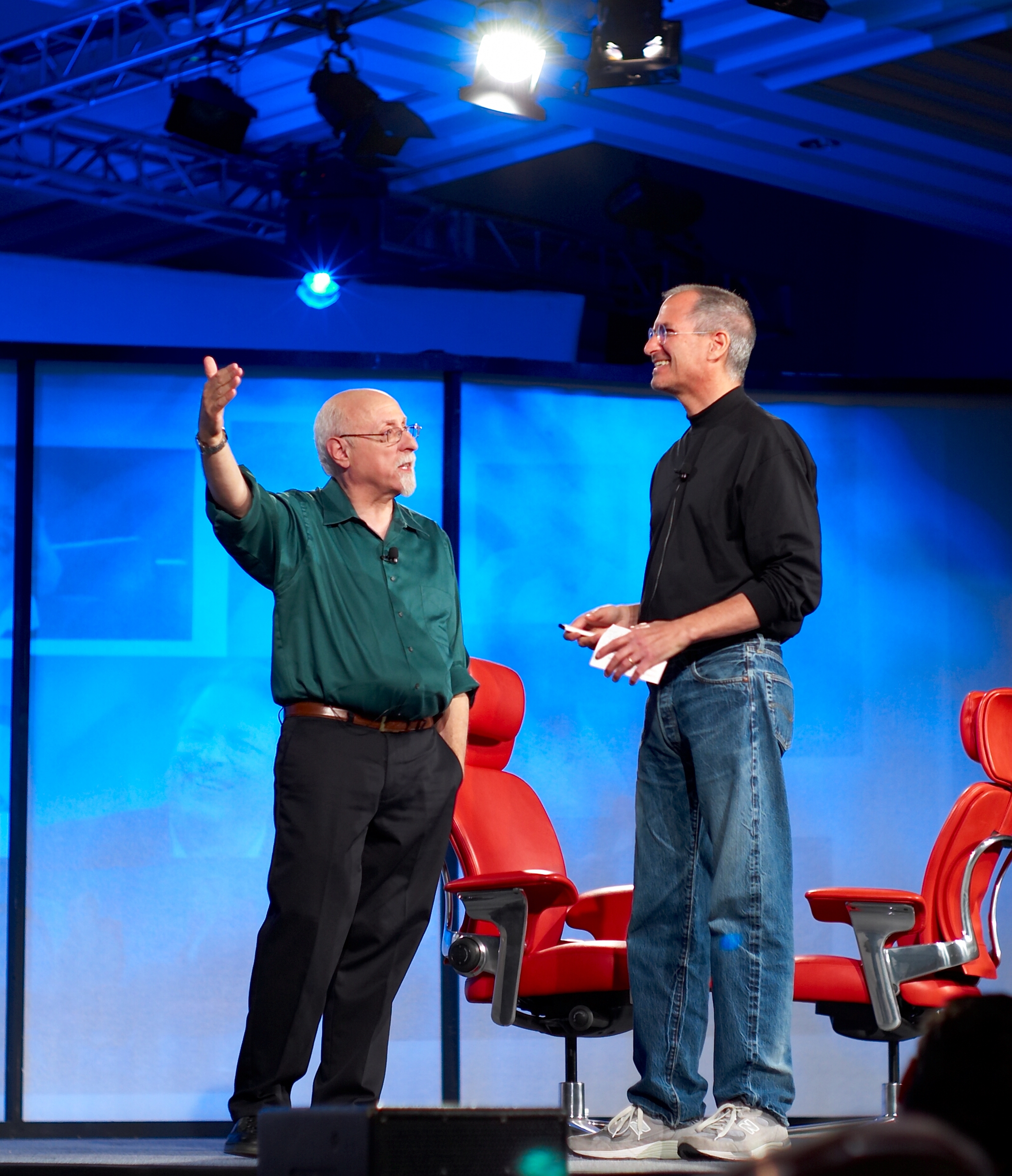 Walt Mossberg and Steve Jobs at All Thing Digital 5 photo by Joi